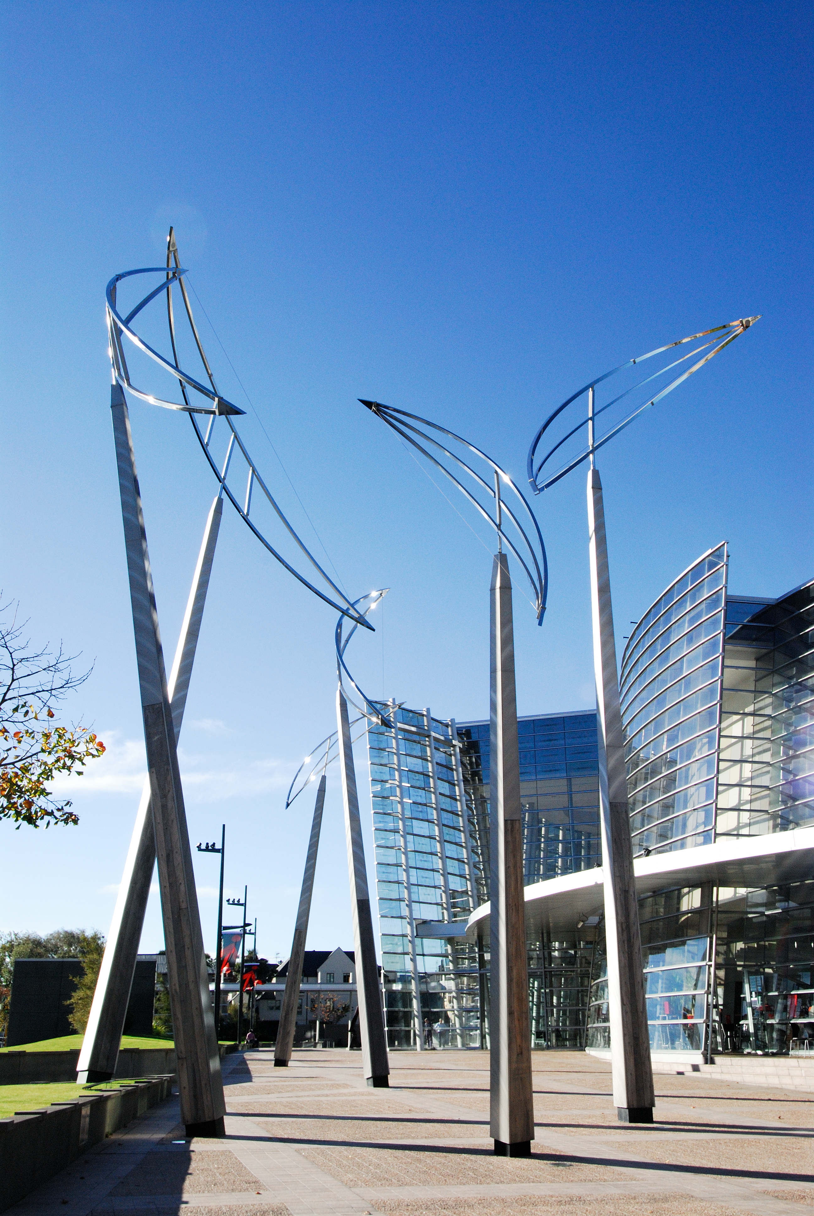 Christchurch (New Zealand)